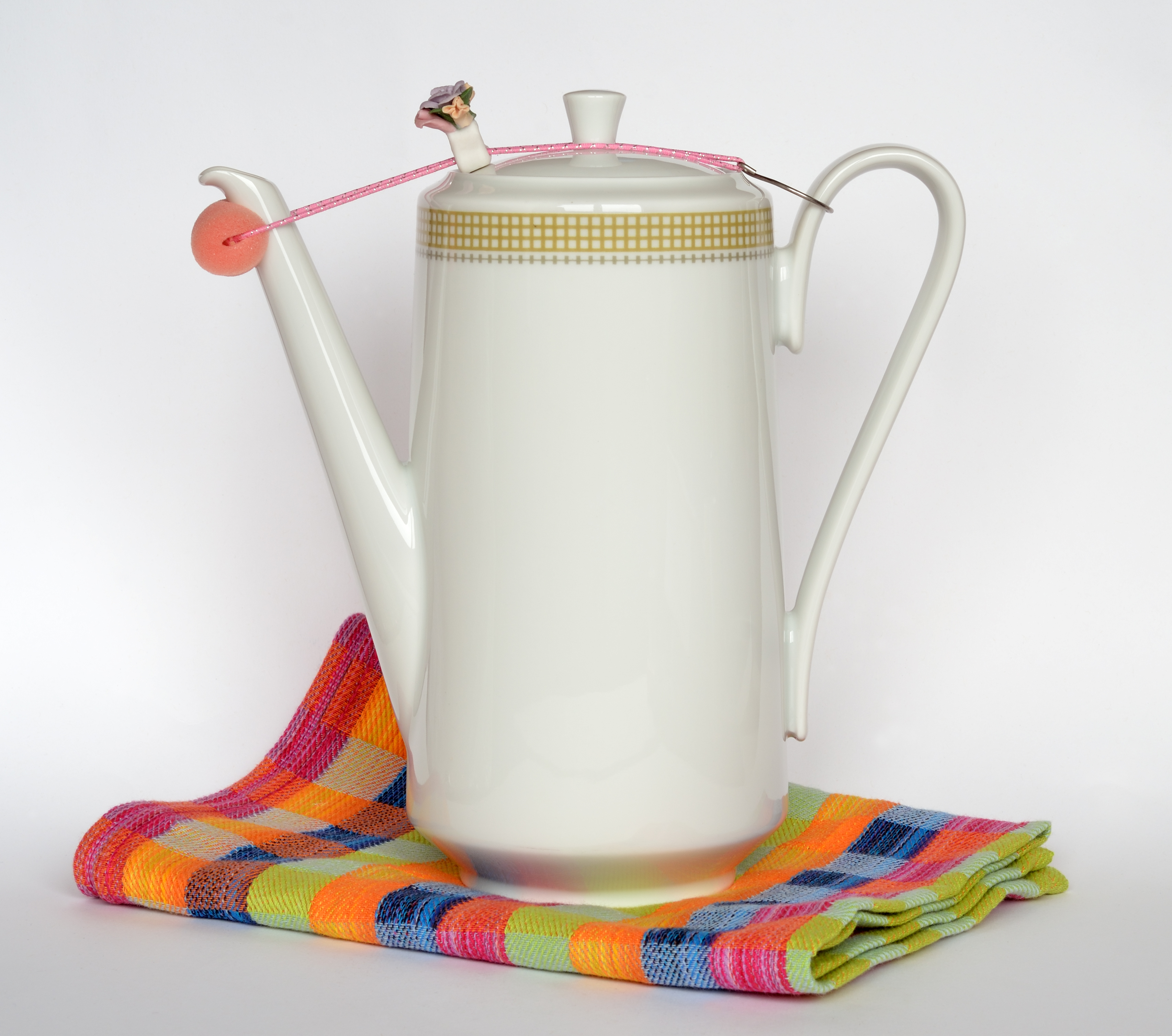 a jug with a drip-catcher